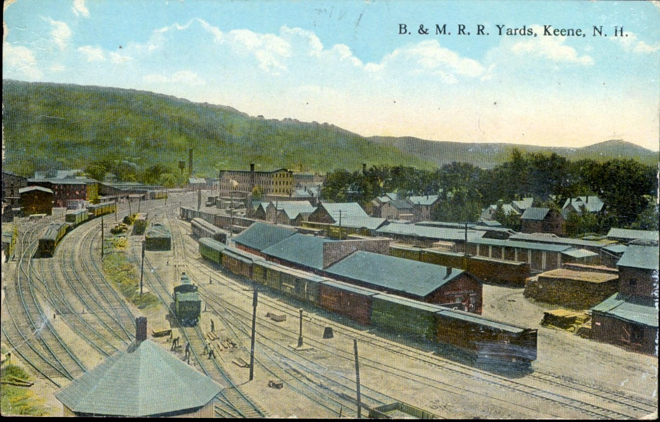 Postcard picture of Boston & Maine Railroad yards in Keene, New Hampshire.